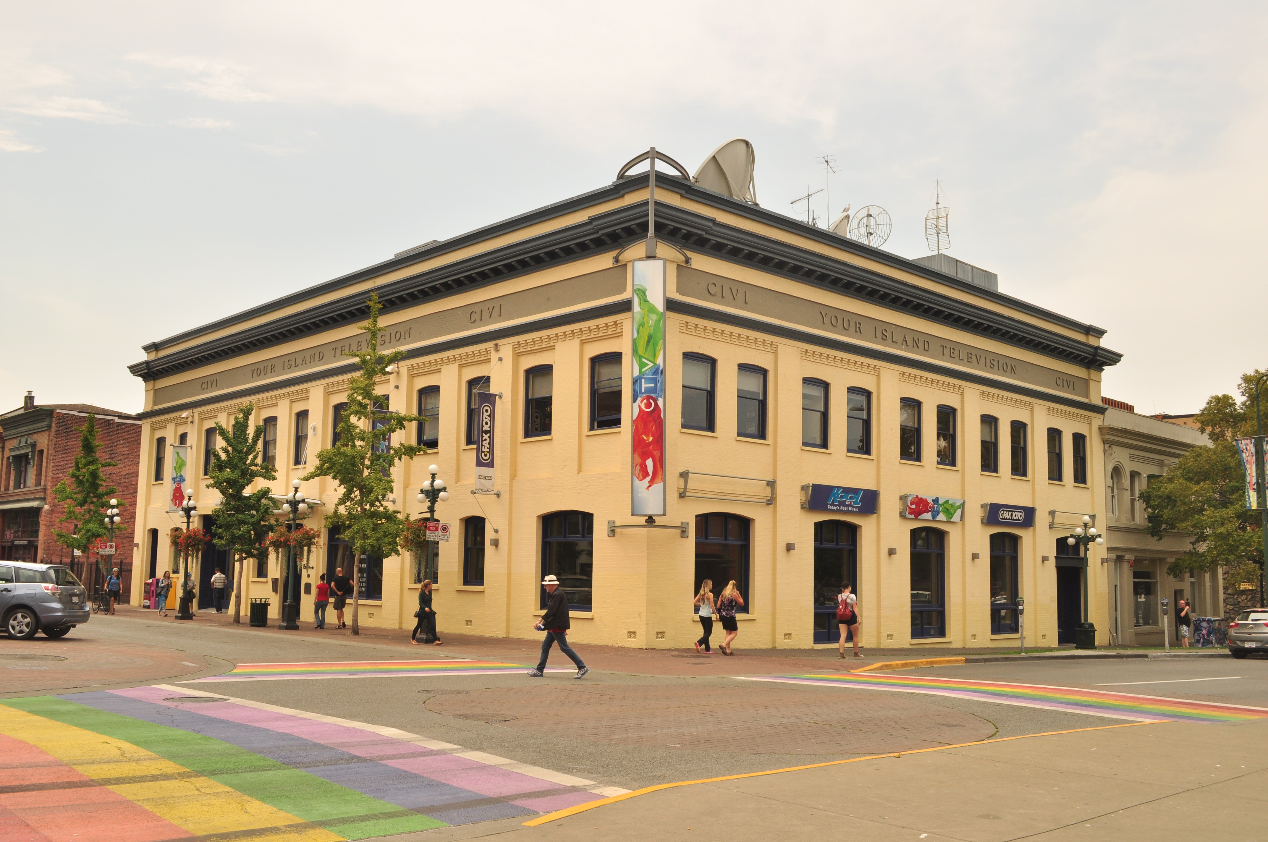 CIVI-DT television building at the corner of Broad Street and Pandora Avenue, Victoria, British Columbia.